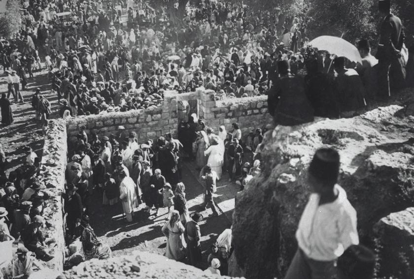 Jews throng to the tomb of Simeon the Just in Jerusalem, on Lag Baomer 1927.